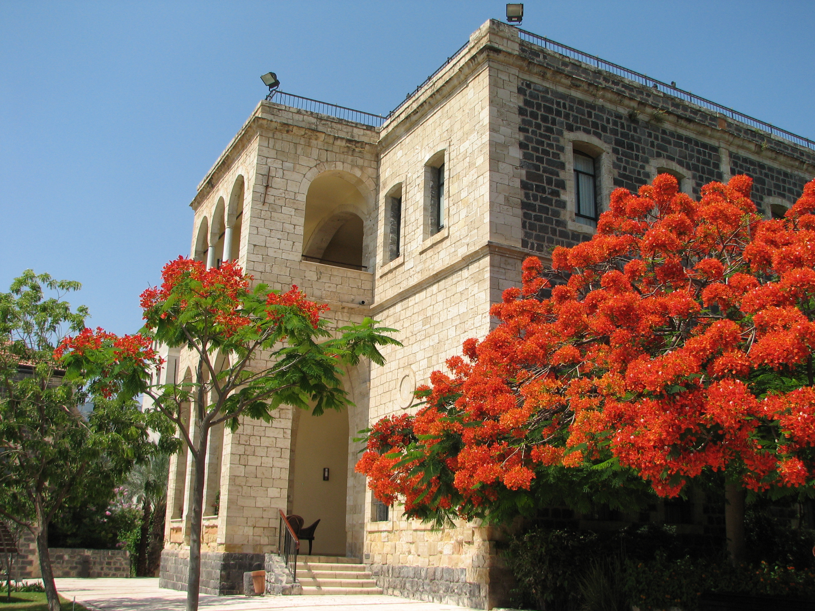 The Doctor House. The Scots Hotel – A boutique hotel, situated in a old historical compound on the shore of the Sea of Galilee.